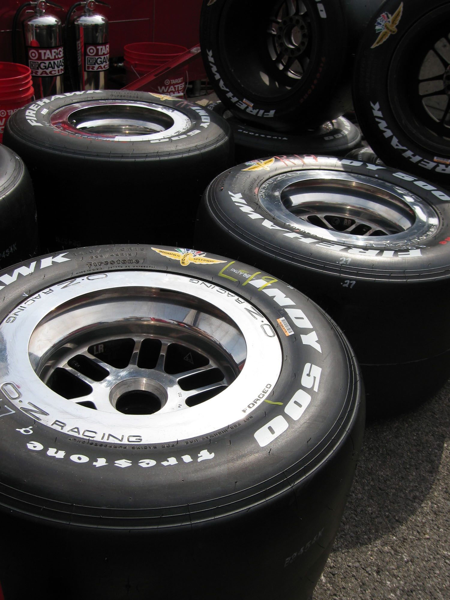 Tires in the pits during qualifications for the Indy 500.